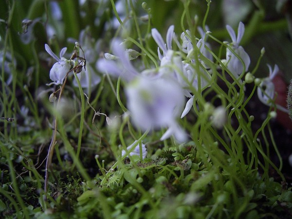 Utricularia sandersonii Author: Denis Barthel